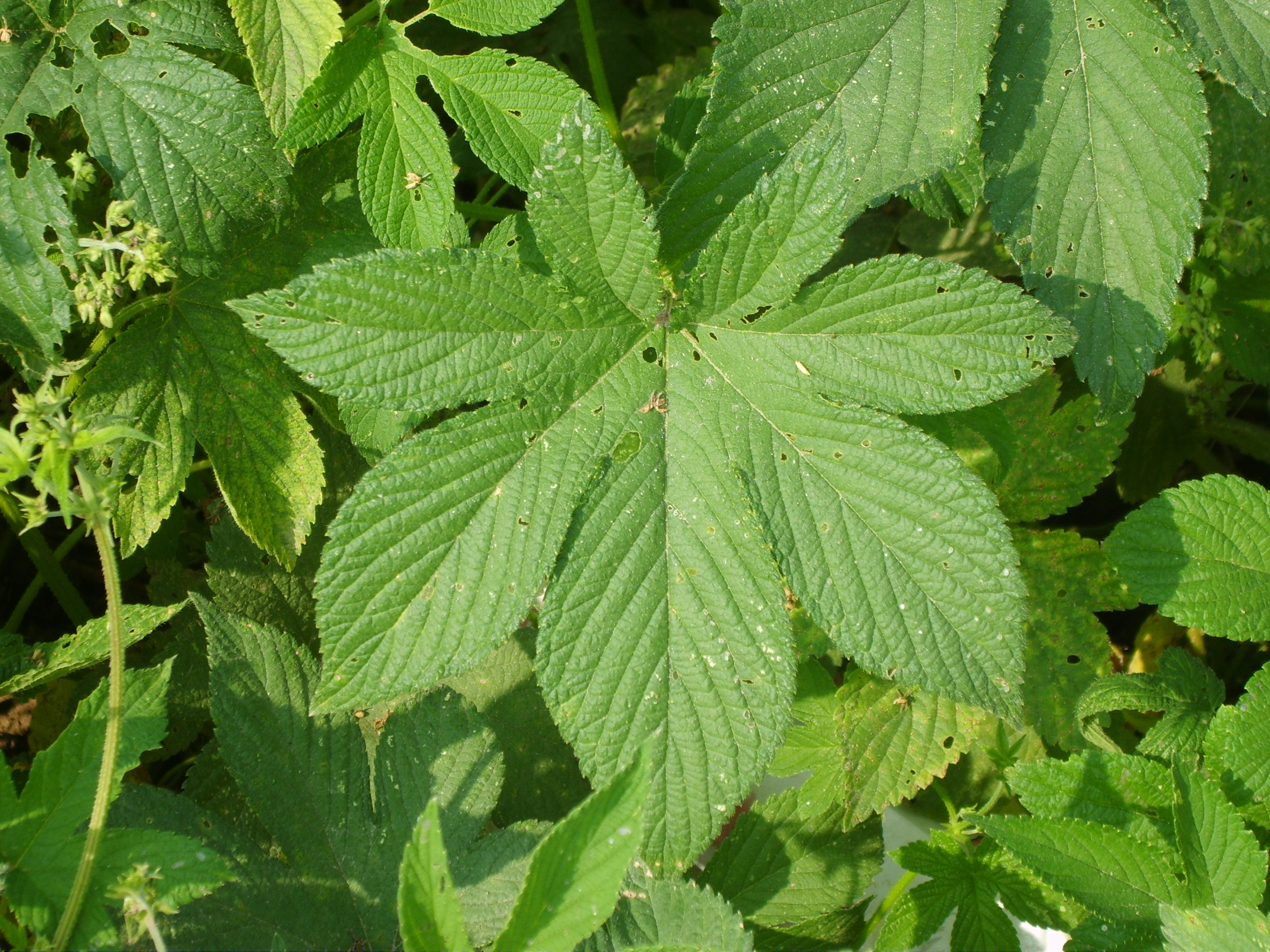 Humulus japonicus in Incheon, Korea